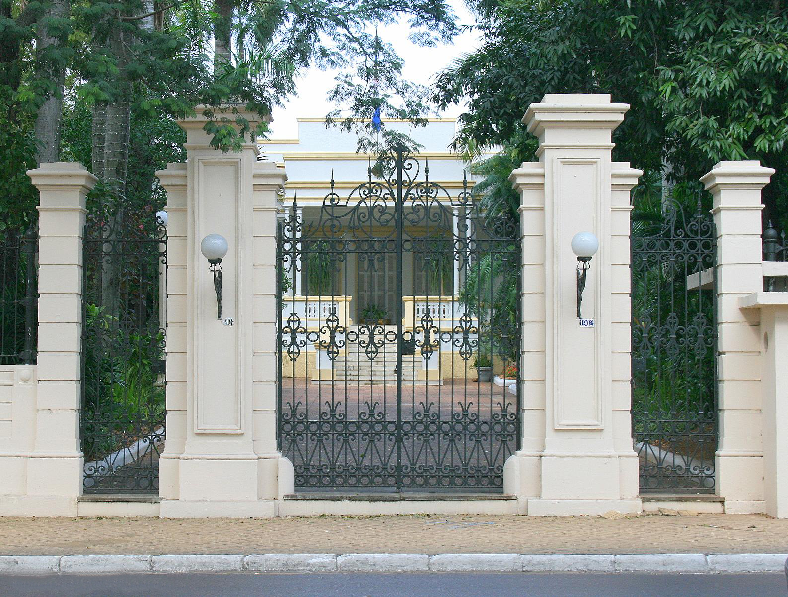 La residencia presidencial de Paraguay se llama Mburuvicha Róga o la casa del jefe en idioma guaraní